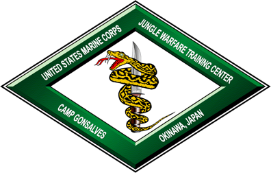 JWTC Logo